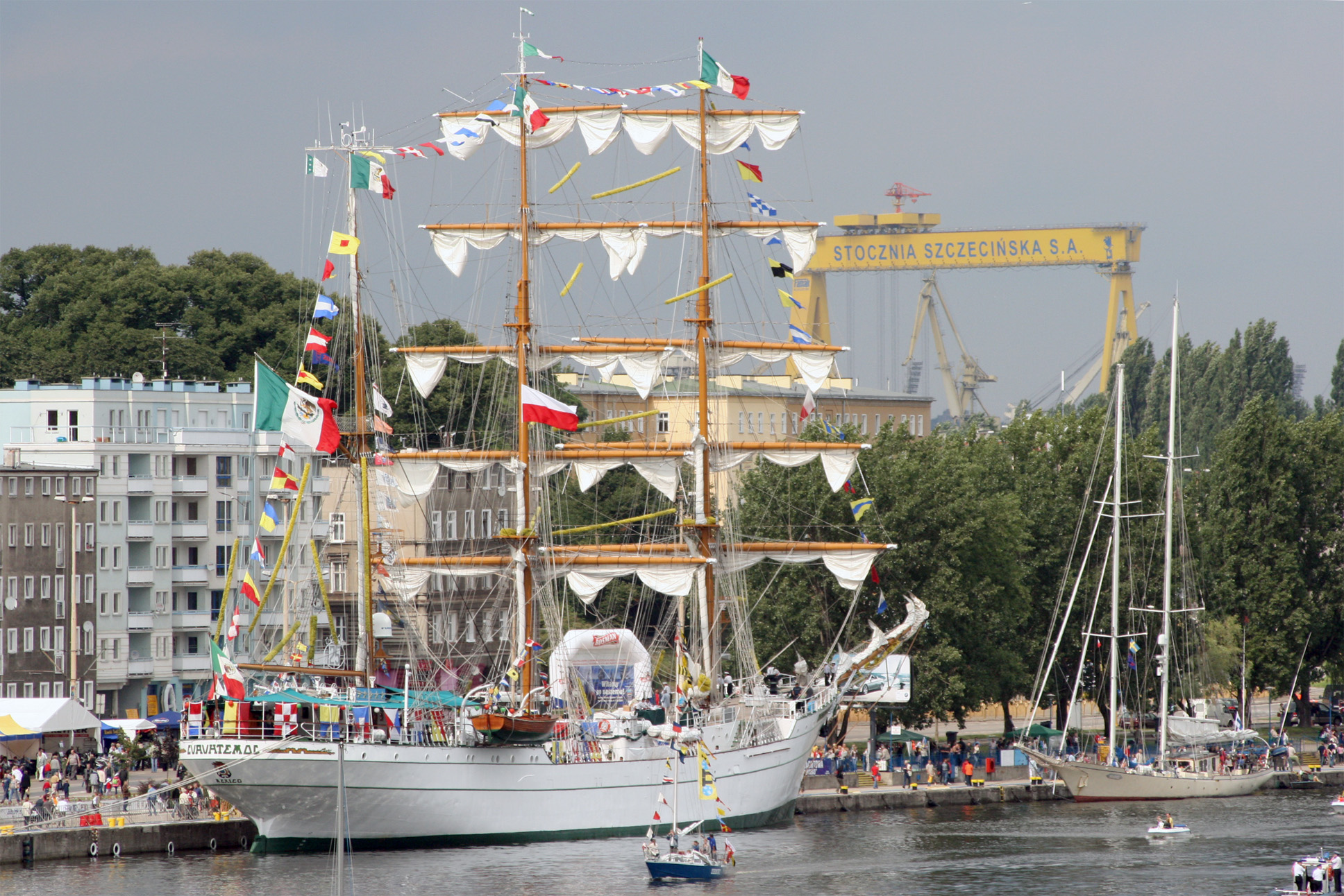 Cuauhtemoc, The Tall Ships' Races, Szczecin 2007